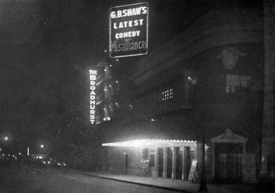 Photograph of the exterior of the Broadhurst Theatre, New York City, during the Broadway run of George Bernard Shaw's Misalliance